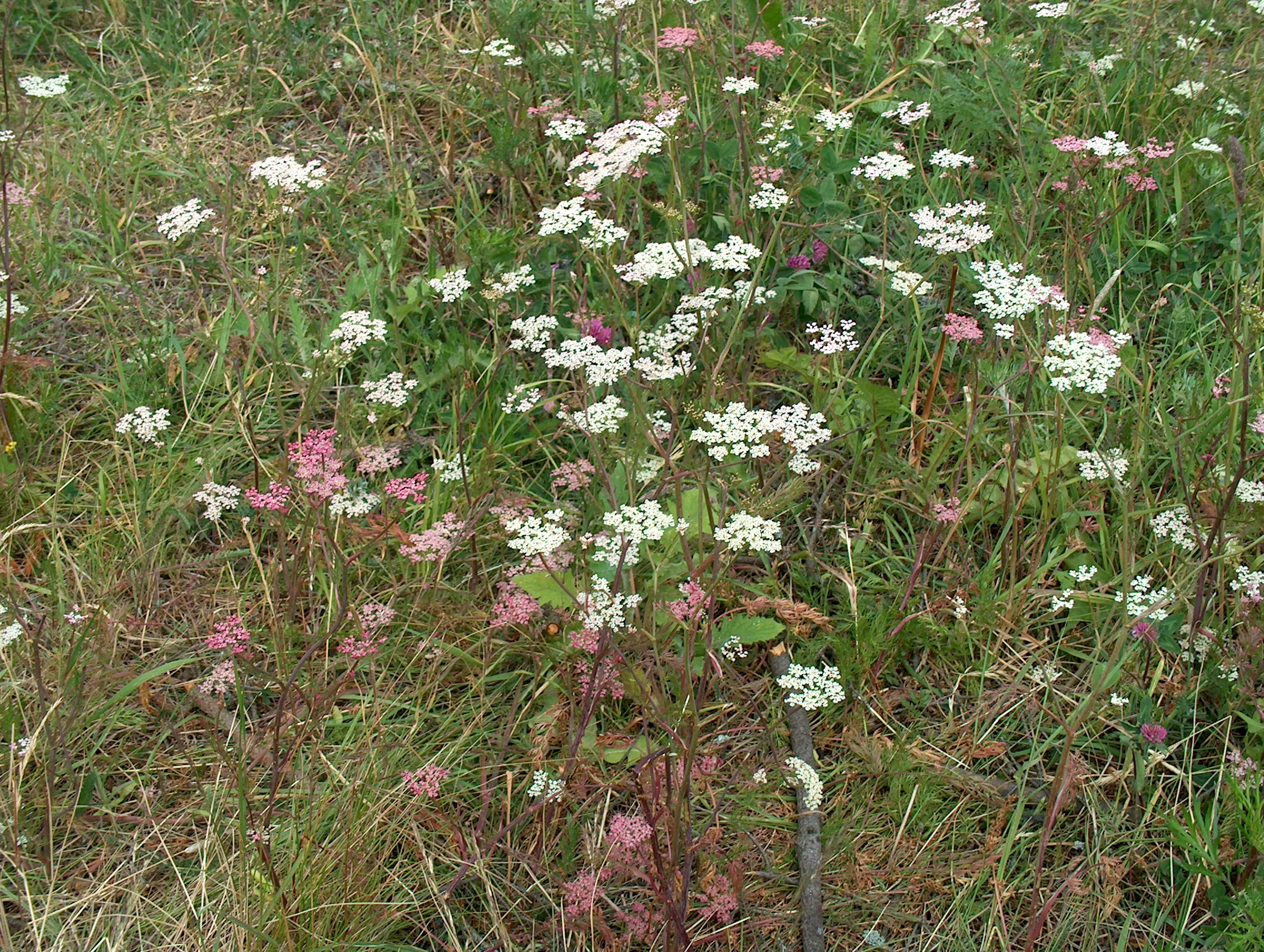 Carum carvi - White and pink caraway flowering in Suomenlinna fortress in Finland.